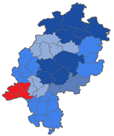 Map of the district court Wiesbaden in Hesse